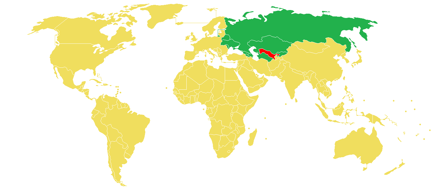 Exit visa requirements for Uzbekistani citizens